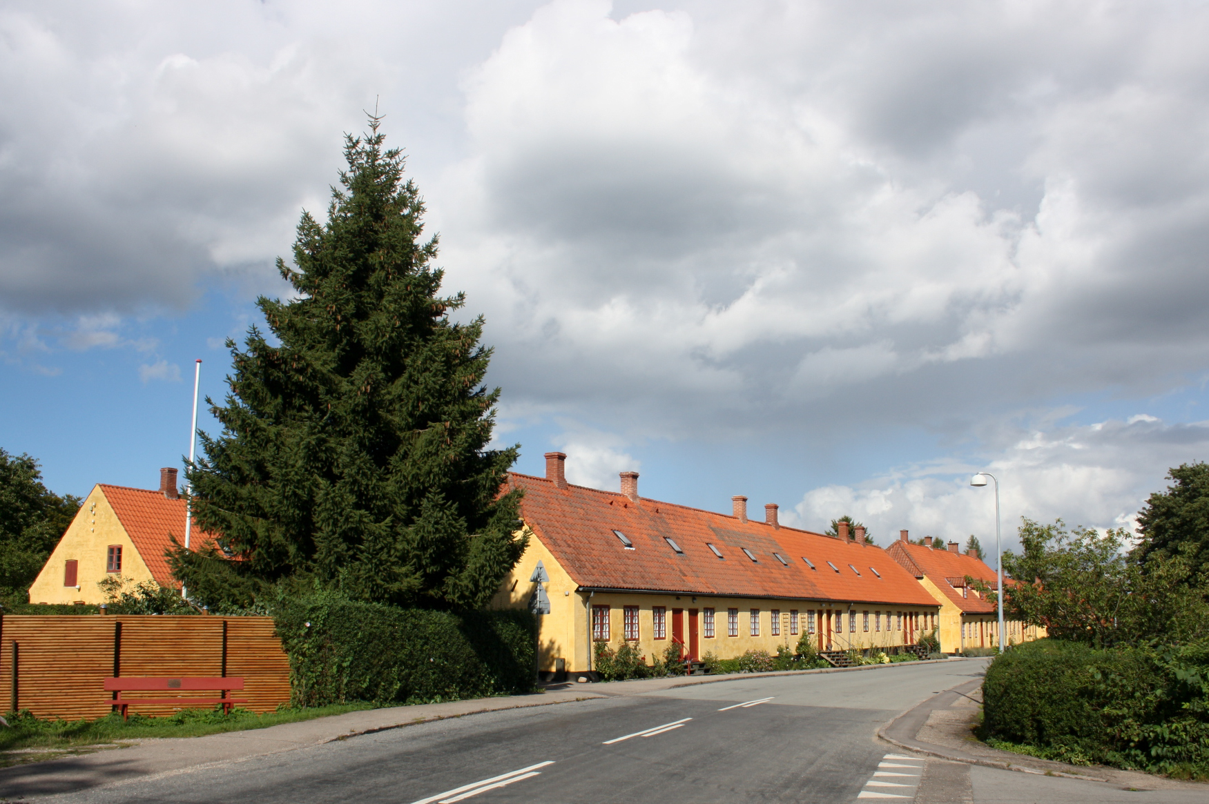 House on Gunmaker street in Hellebaek